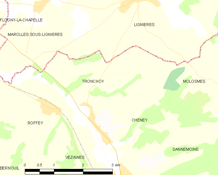 Map of French municipality Tronchoy